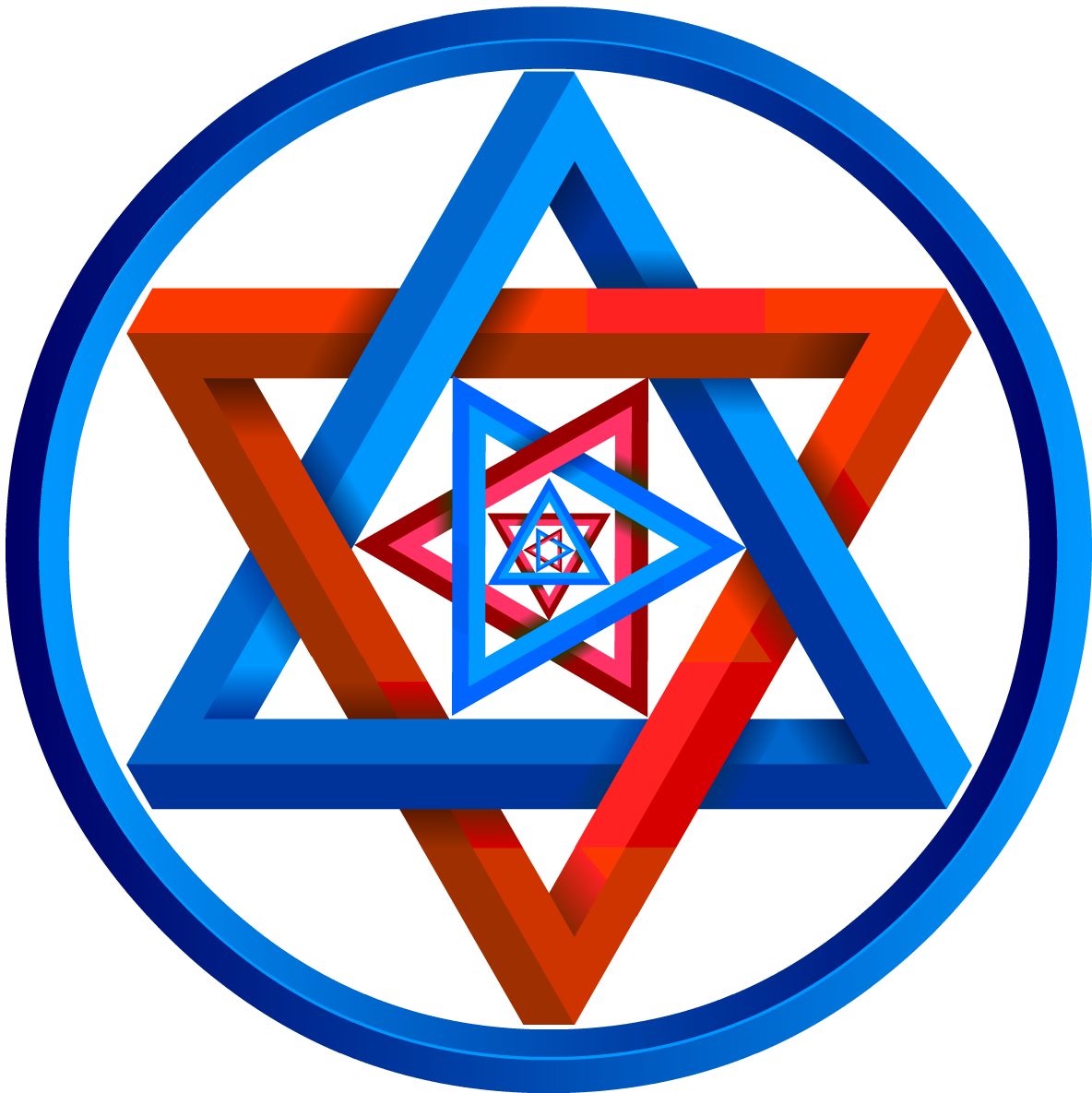 Created by mateus zica in March 2011 Mateus Zica Wikipedia User Page is: This image is free to use in anywhere. If you gonna use it , just send me a email telling me where its gonna be used.Thanks.